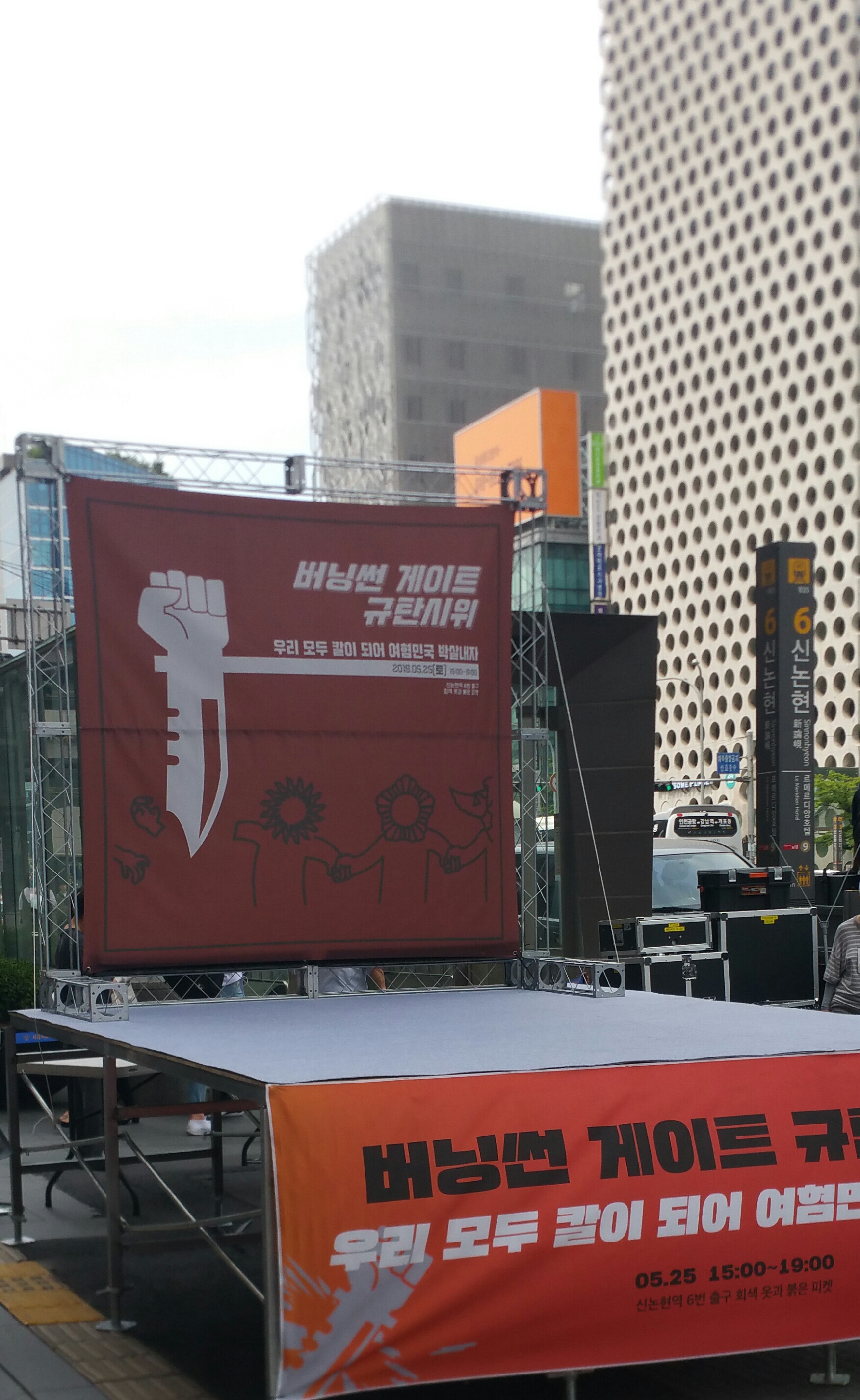 Burning Sun nightclub protest, Sinnonhyeon Station Exit 6, (Le Méridien Hotel), Gangnam-gu, Seoul, May 25, 2019.